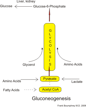 gluconeogenesis summary